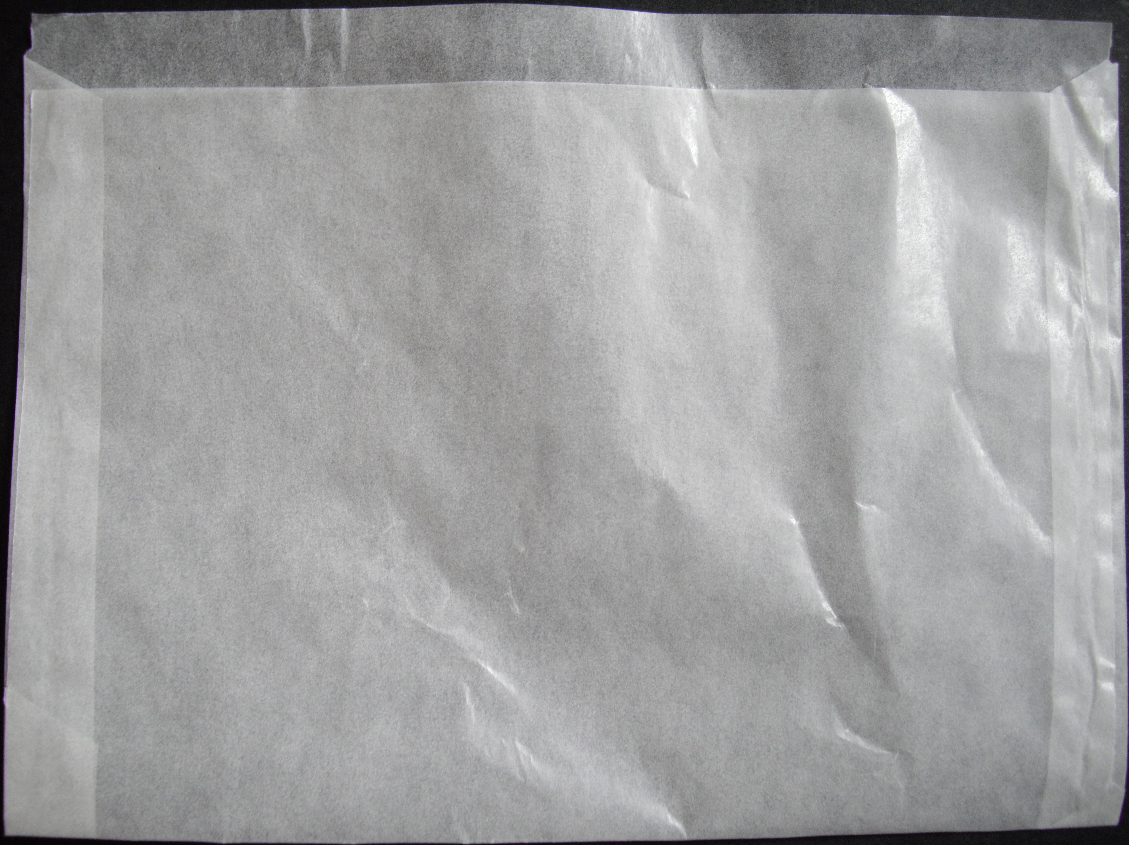 Glassine bag for Photos